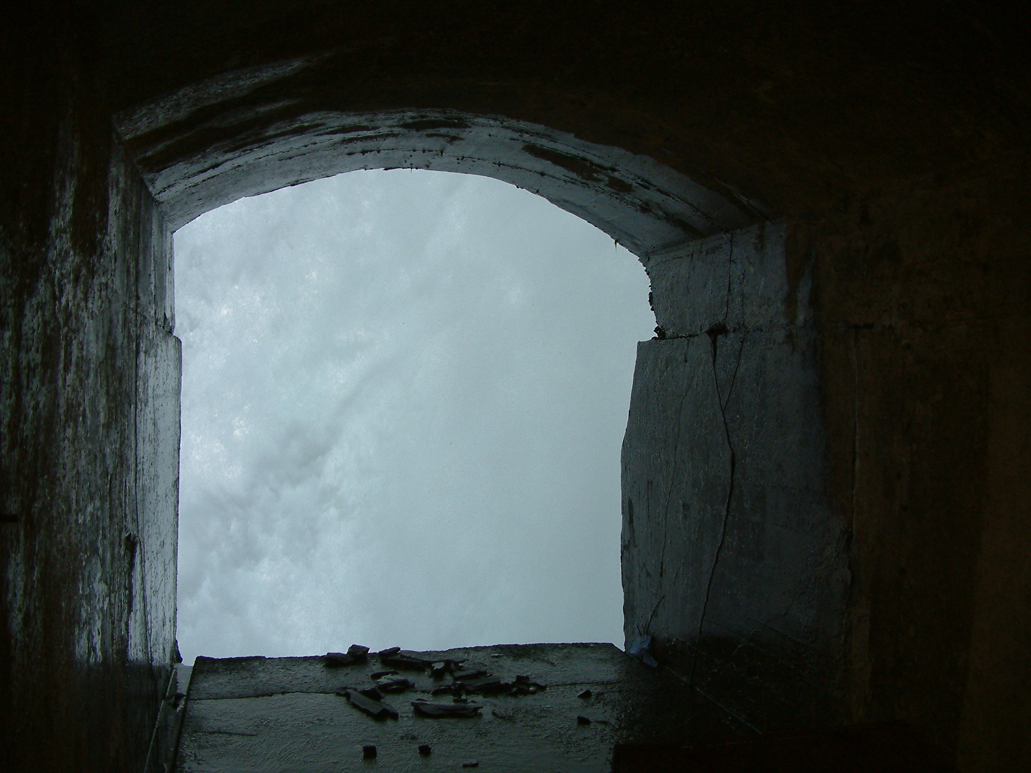 Photo taken August of 2006 by Gergely Vass.